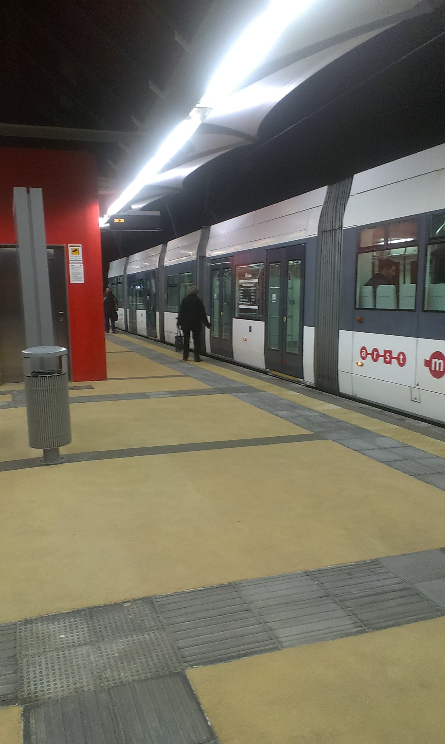 The Policlinico terminus of the line 1 of the light railway of Cagliari, Sardinia, Italy, opened in 2015.